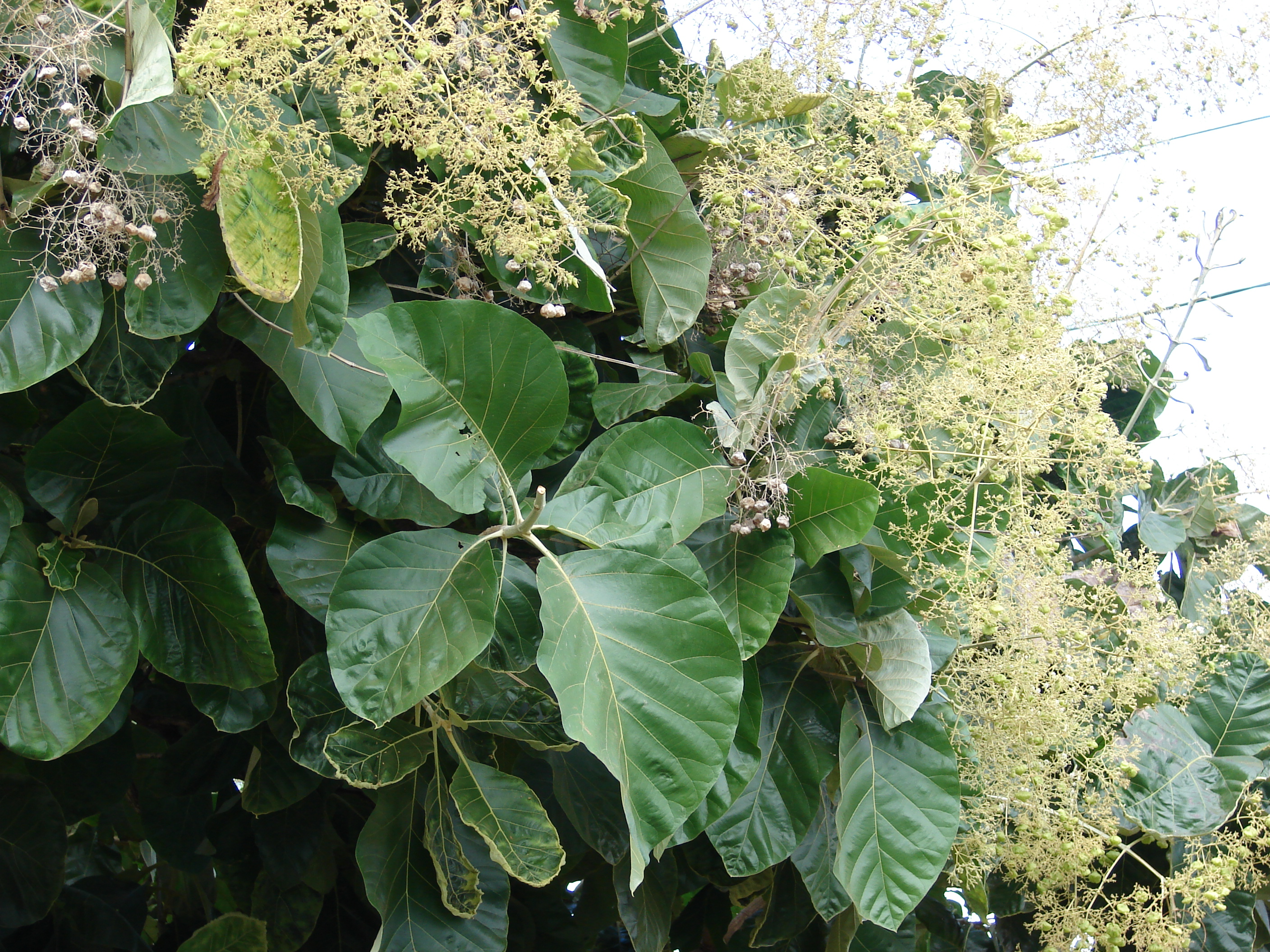 Tectona grandis (leaves flowers and fruit). Location: Maui, Kihei